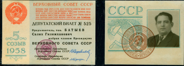 Identity cards of the people's Deputy of the Supreme Council of the Soviet Union, 5 th convocation. 1958